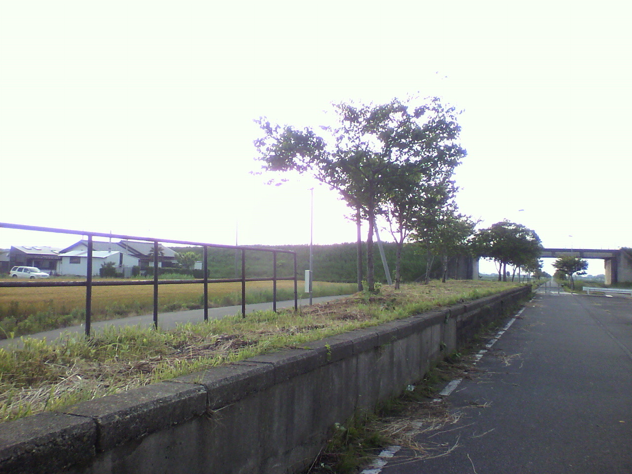 This is the site of the Tsukuba Railway Tadobe station in Tsuchiura, Japan.